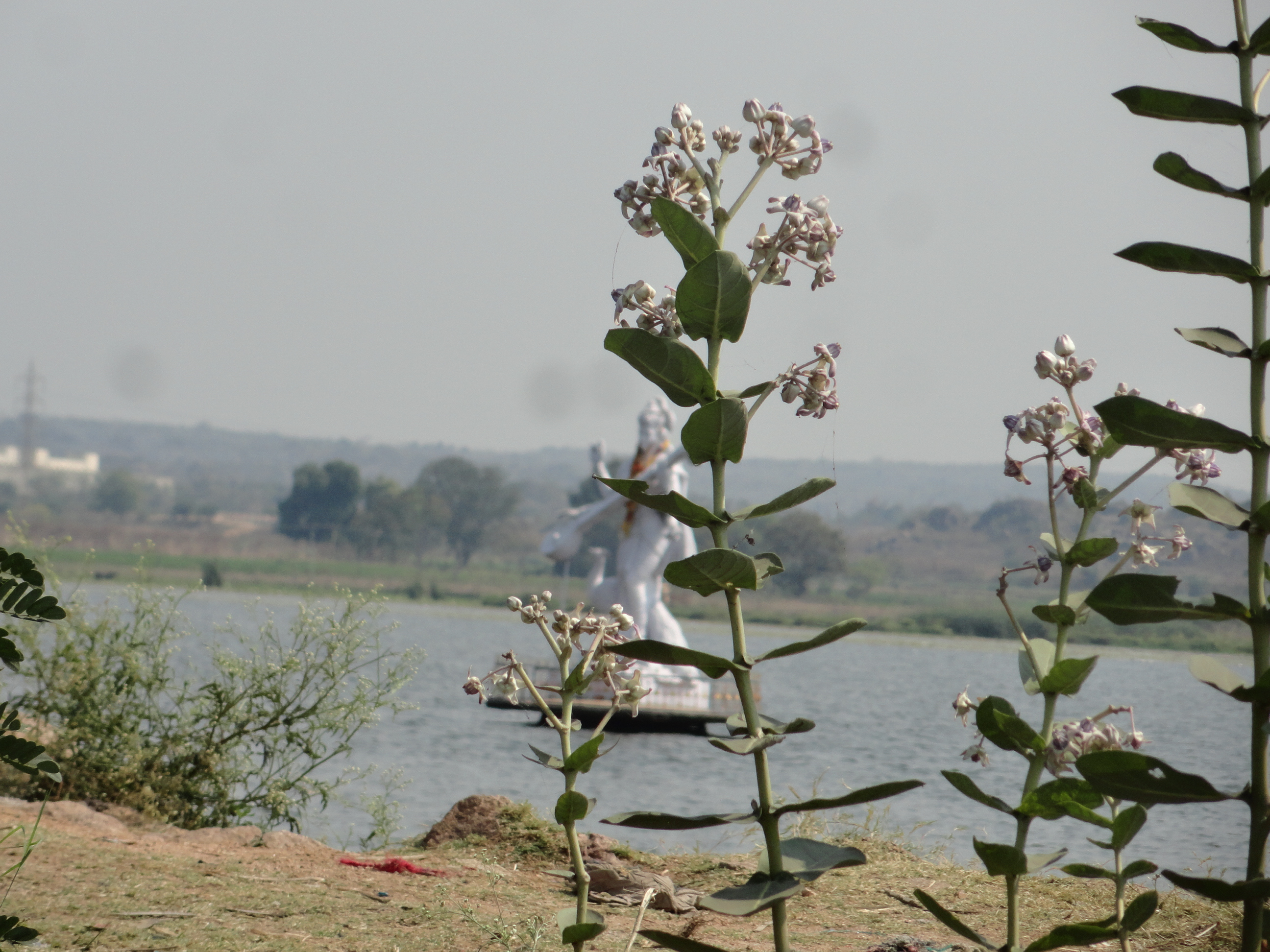 a statue in the middle of a lake at nizamabad